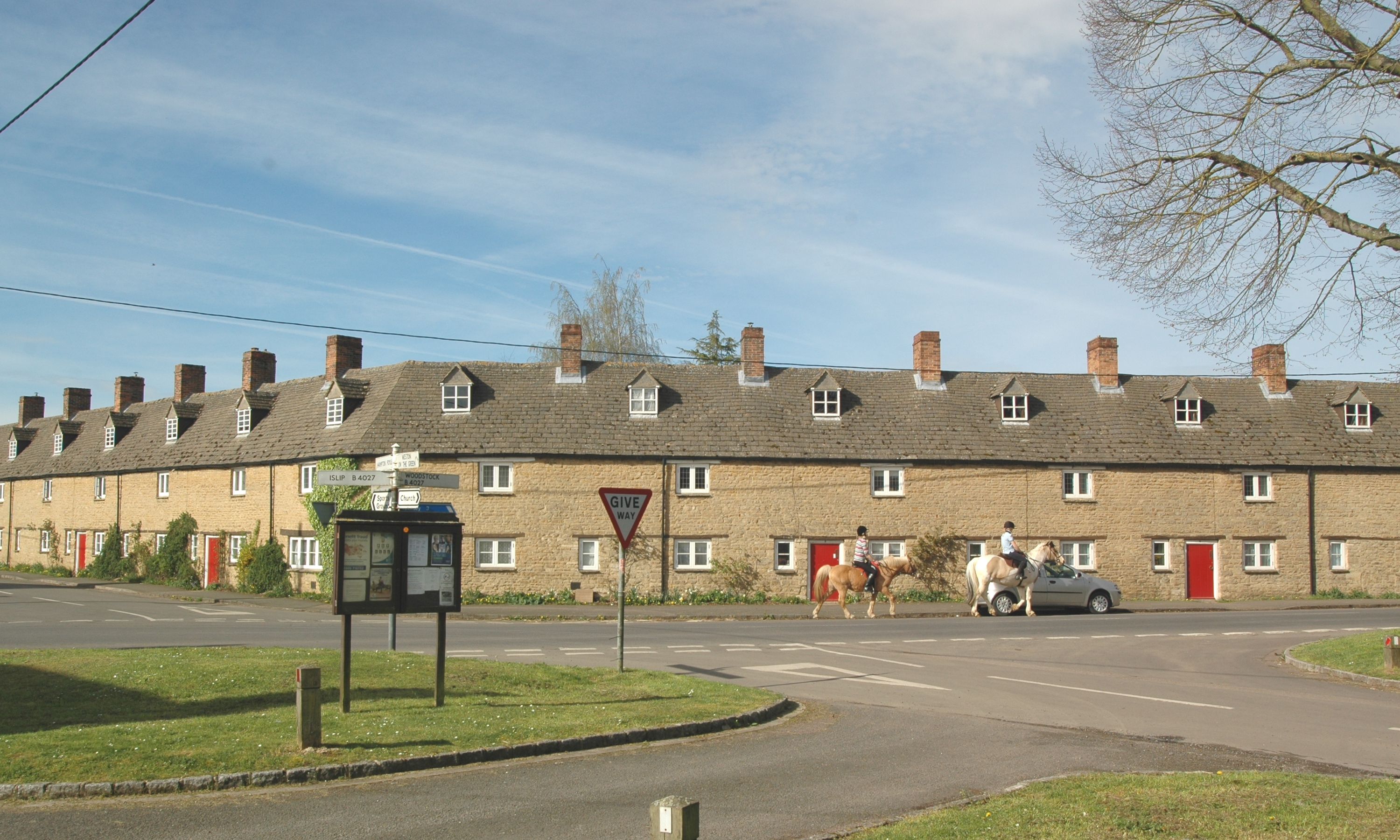 Terrace of cottages at the corner of Oxford Road, Bletchingdon, Oxfordshire